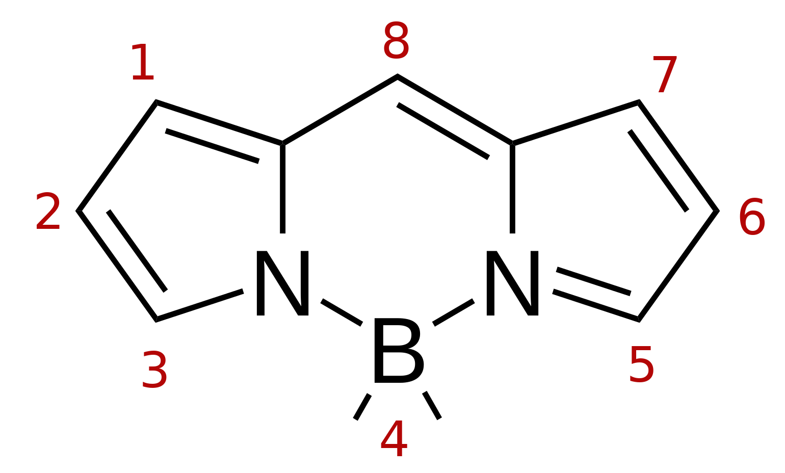 IUPAC atom numbering for substitutions on the BODIPY (boron-dipyrromethene) core. Positions 3 and 5 are also commonly called "alpha"; 1,2,6,7 are called "beta"; and 8 is called "meso". Note that the numbering does not match the numbering on the parent 2,2'-dipyrromethene molecule. After Aurore Loudet and Kevin Burgess (2007): "BODIPY dyes and their derivatives: Syntheses and spectroscopic properties". Chemical Reviews, volume 107, issue 11, pages 4891–4932.